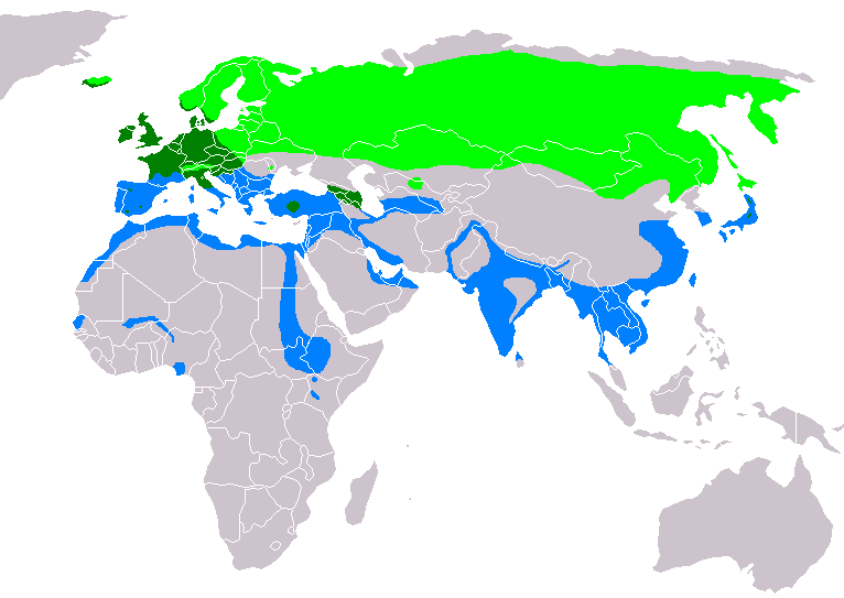 Distribution of Anas crecca dis.PNG Light Green - nesting area Blue - wintering area Dark Green - resident all year